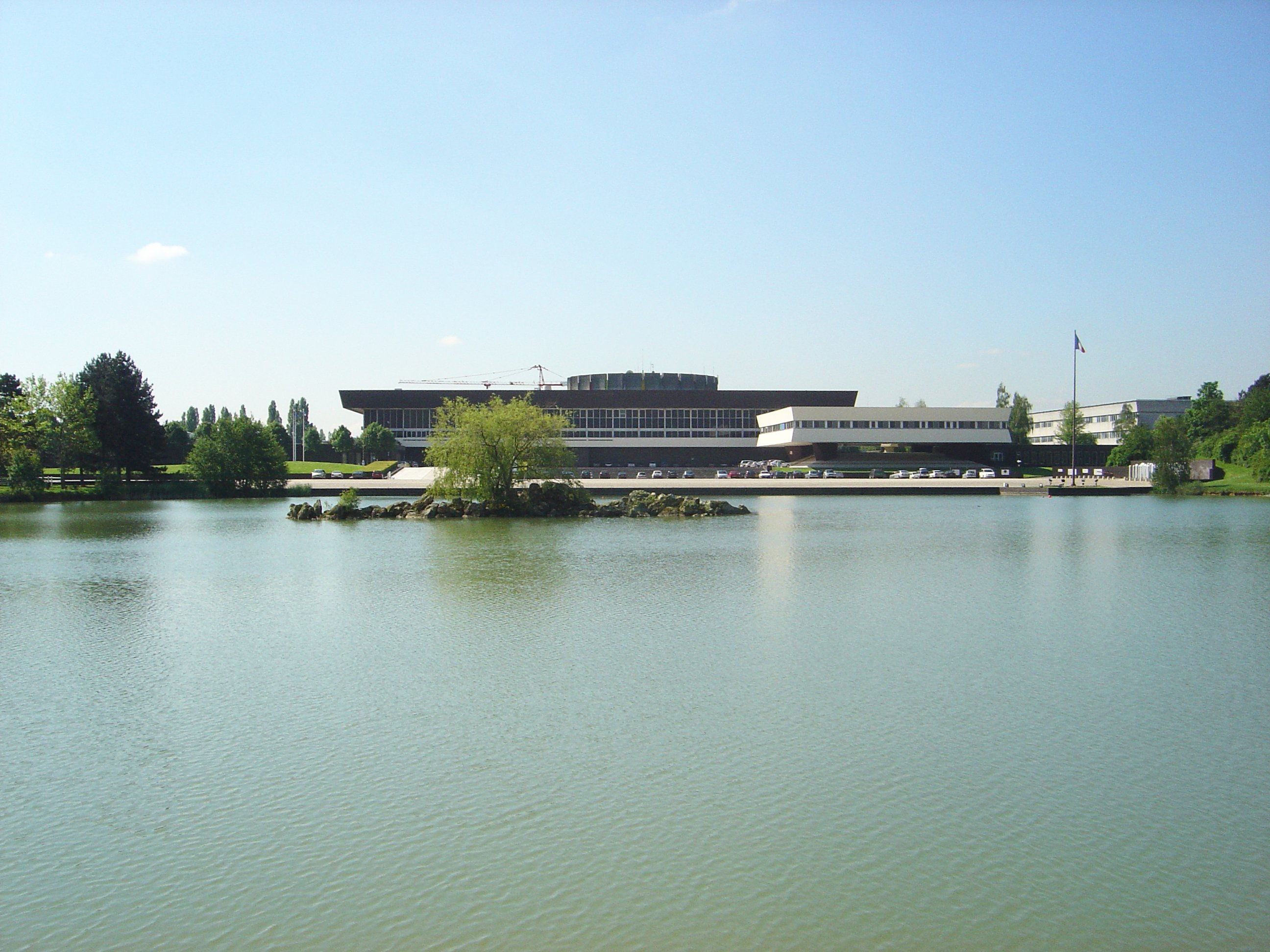 École Polytechnique: main hall seen from the other side of the lake.